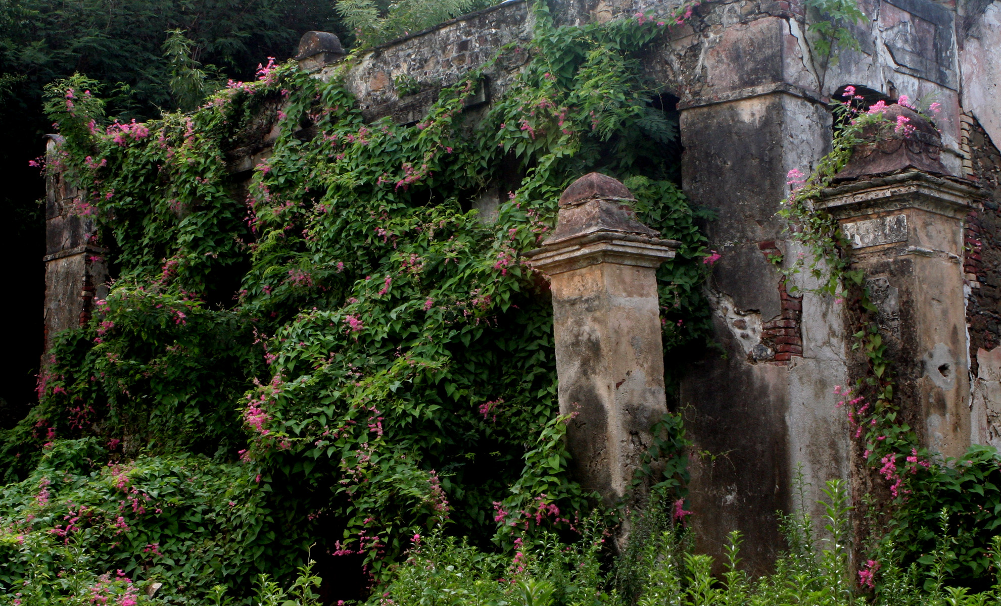 Reef Bay Great House ruins